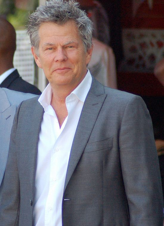 David Foster at a ceremony for Rascal Flatts to receive a star on the Hollywood Walk of Fame.